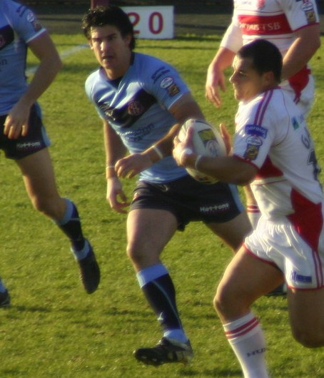 Flannery & Galea